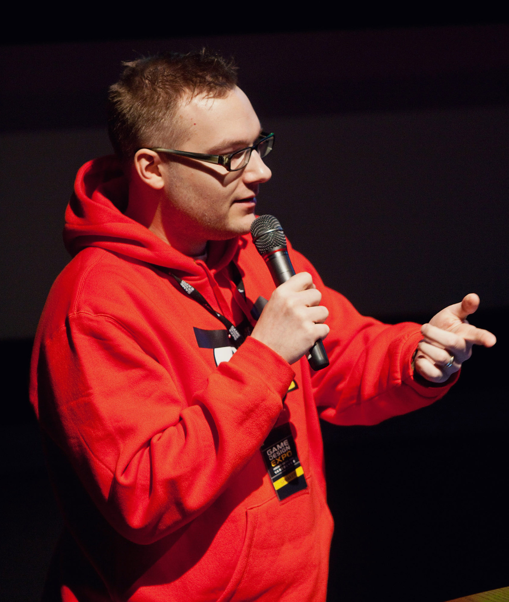 Jaakko Iisalo, Senior Game Designer for Rovio Mobile, shares the design process that went into the creation of Angry Birds with guests of Game Design Expo 2011 in Vancouver, British Columbia, Canada (January 22, 2011).